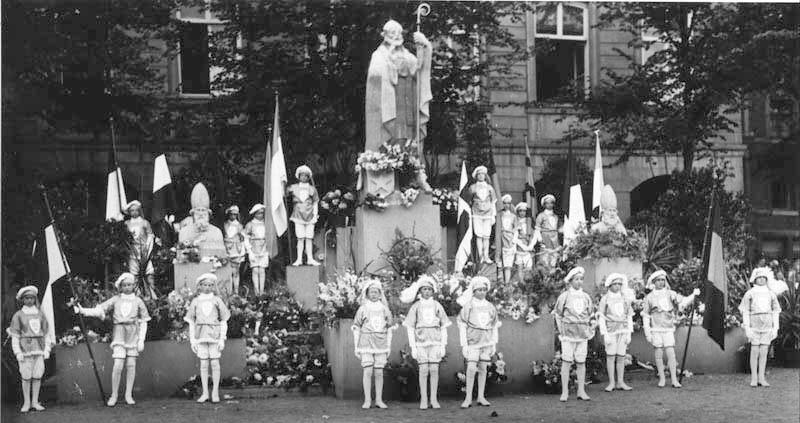 Group of Catholic youth around a sculptural ensemble in Vrijthof square during the 1930 Pilgrimage of the Relics (Heiligdomsvaart) in Maastricht, Netherlands. The 10 or 15-day religious festival is celebrated in Maastricht every seven years and dates back to the Middle Ages. The temporary statue of Saint Servatius and the busts of Saint Lambert and Saint Hubert are the work of local sculptor Charles Vos. The uniformed 'guards' are members of the Berchman Compagnie, a youth club run by the Jesuits. Photo: Municipal Archives Maastricht (GAM 27518), part of RHCL collections.